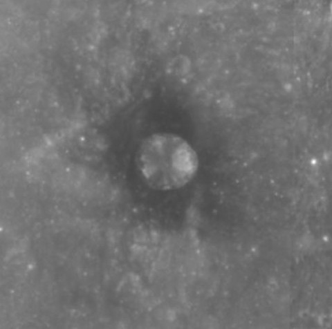 Sundman J crater, on the far side of the moon, showing its dark ray system (dark halo). Image width is approximately 57 km. Clementine UVVIS 750 nm mosaic.